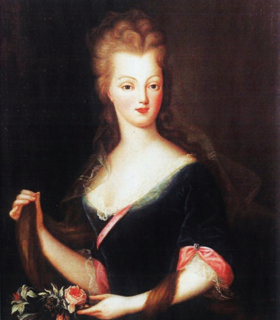 Portrait of the Marquise of Távora. C. 1770 copy of a portrait done in 1720-1730 by D. Ana de Lorena (1691-1761).